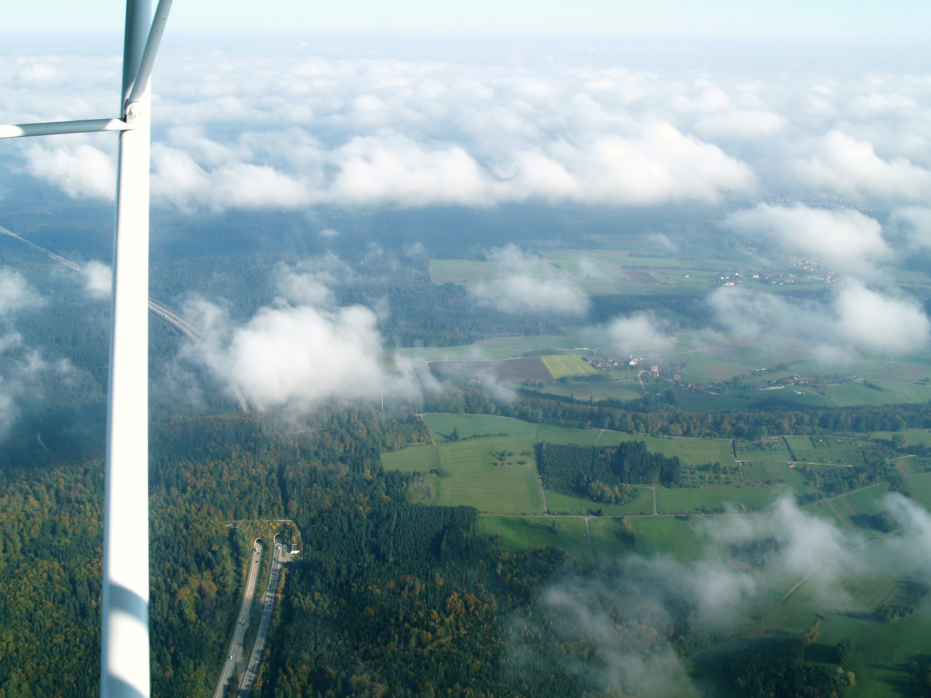 Vertical visibility impaired by clouds